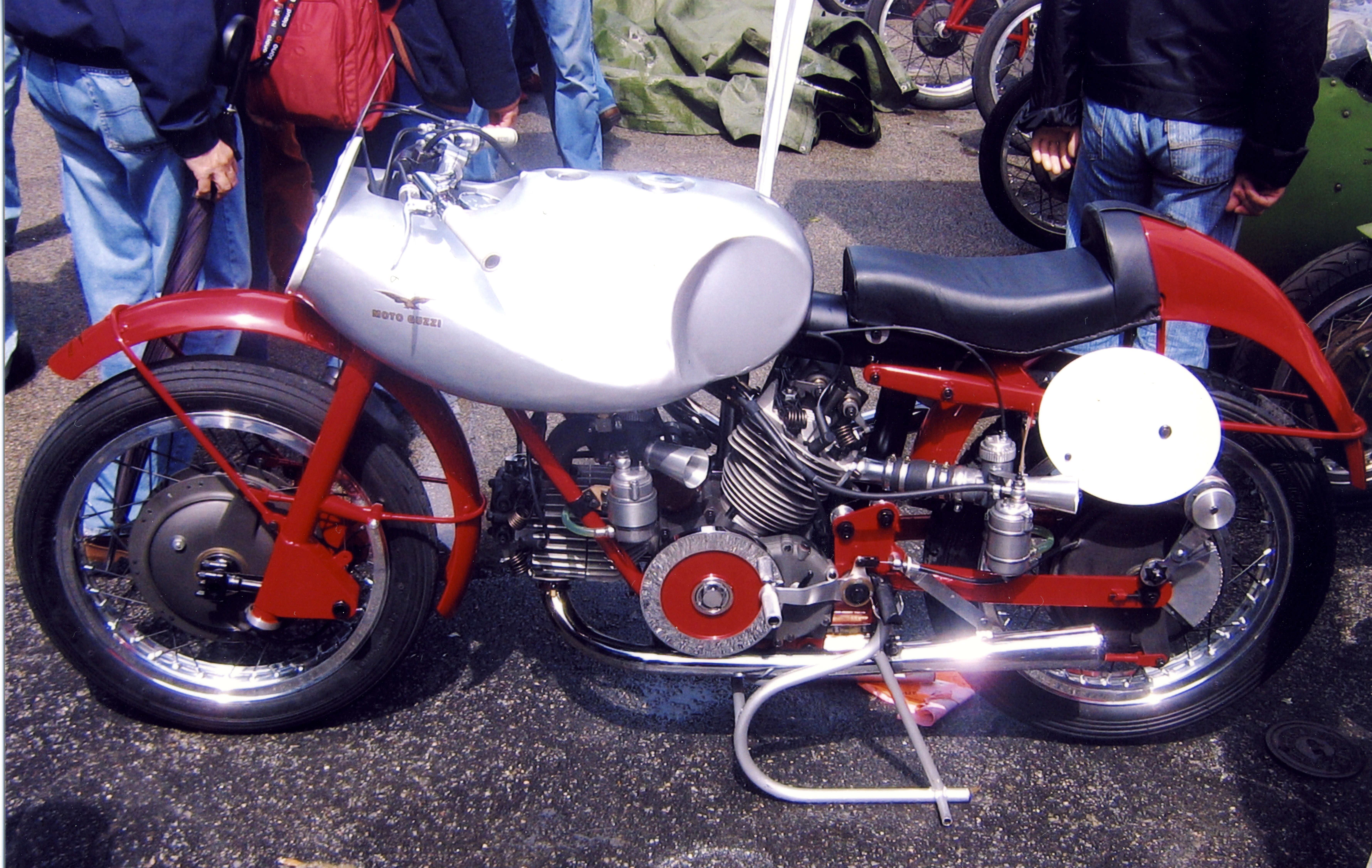 Moto Guzzi 500 GP bicilindrica, versione 1951, esposta a Rimini durante il Pasolini Day del 2007